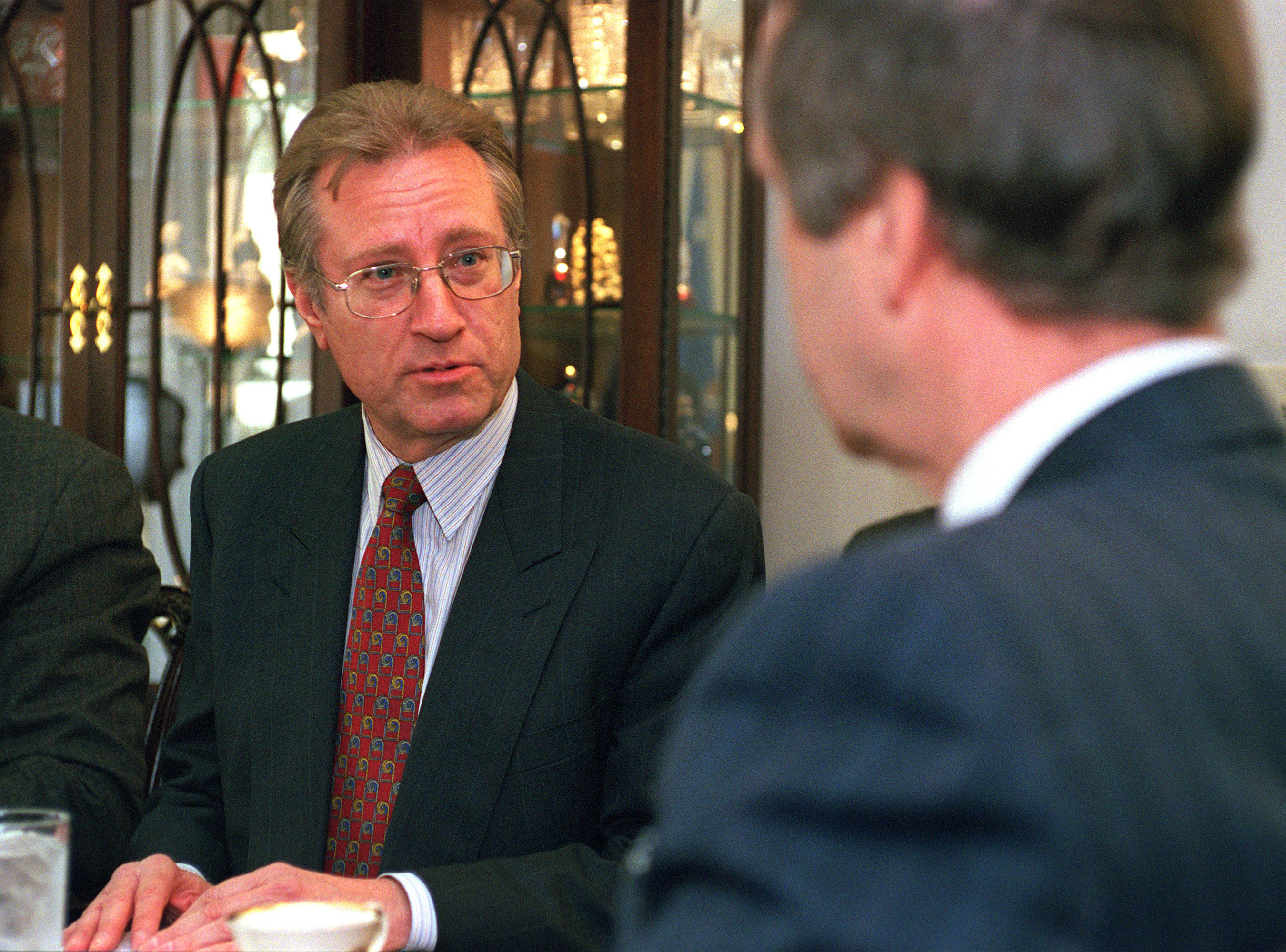 Canadian Defense Minister Arthur Eggleton (left) meets at the Pentagon, April 10, 1999, with Secretary of Defense William Cohen (right) to discuss the progress of Operation Allied Force -- the NATO bombing campaign against Yugoslavia.